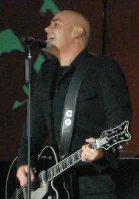 Peter Furler on Join the Tribe Tour